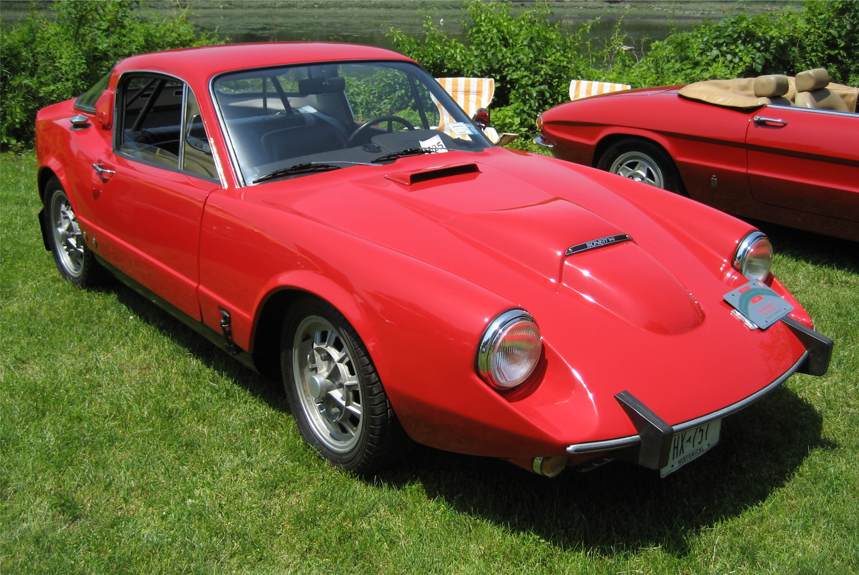 1968 Saab Sonett V4 coupe photographed at the 2008 Greenwich Concours d'Elegance in Greenwich, Connecticut.